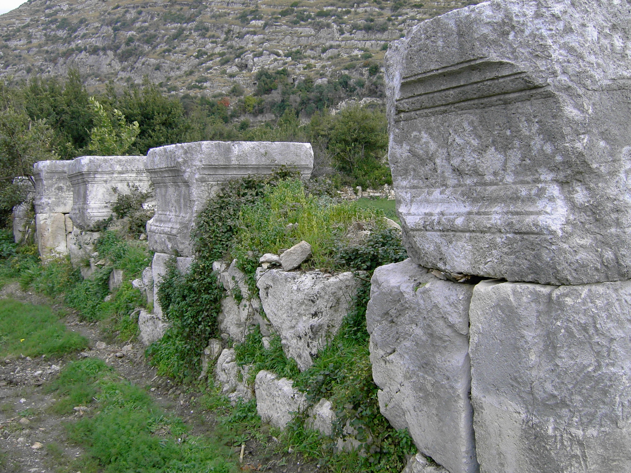 Remaining column plinths of possibly the main/harbour street, Seleucia Pieria